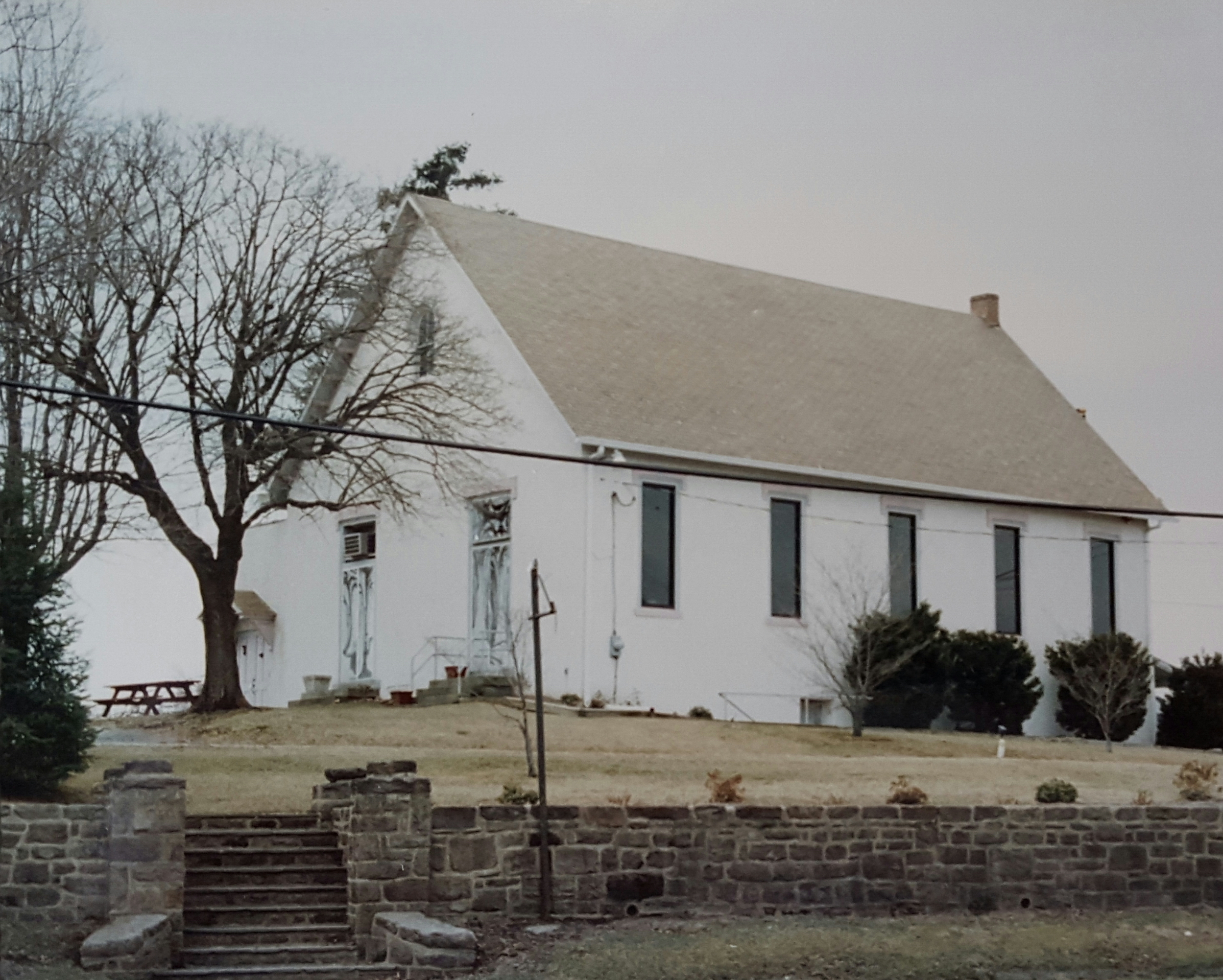 The Rhod's Meetinghouse, formerly the home of the Vincent Mennonite Church